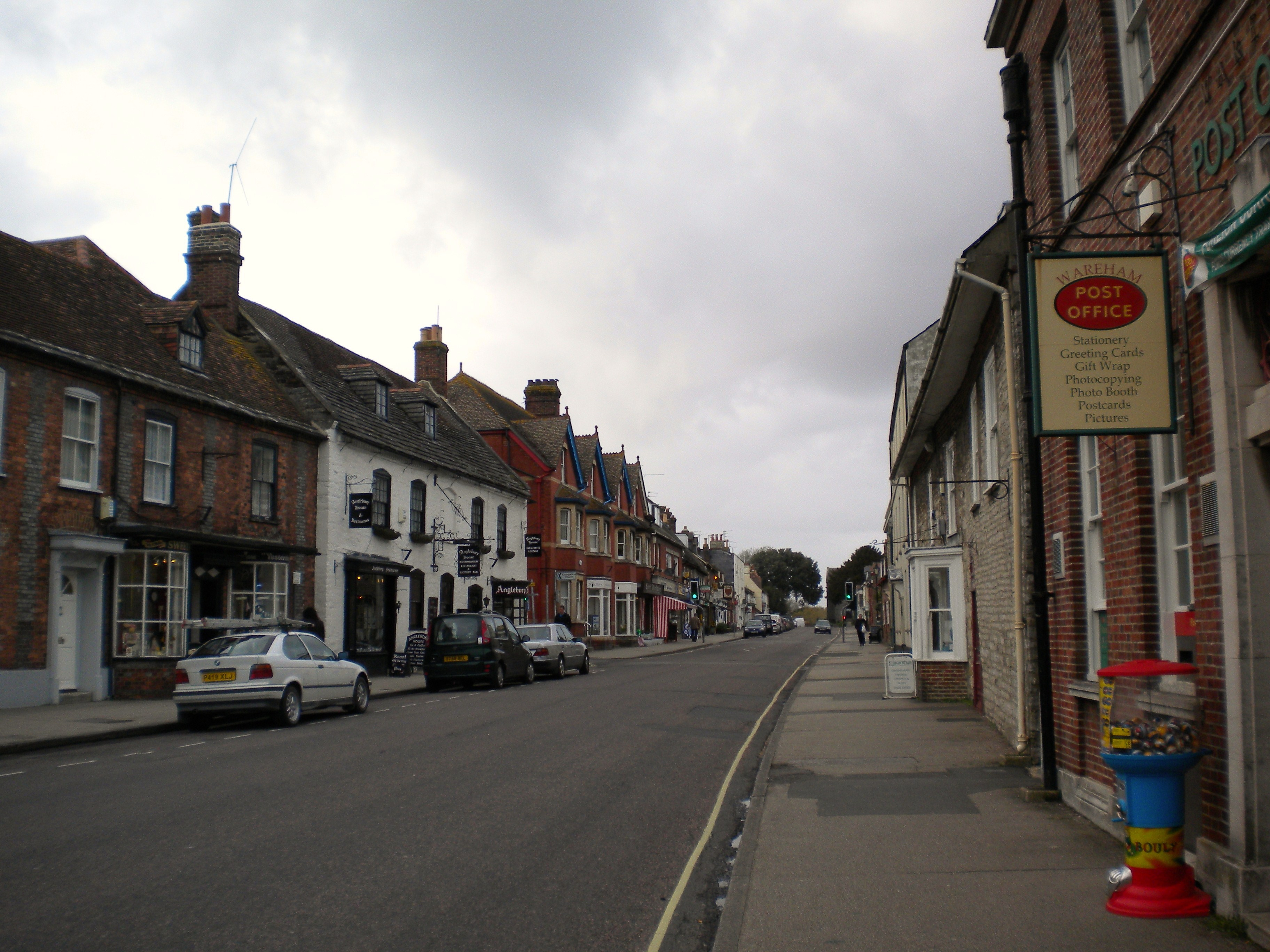 North Street, Wareham, Dorset, England.